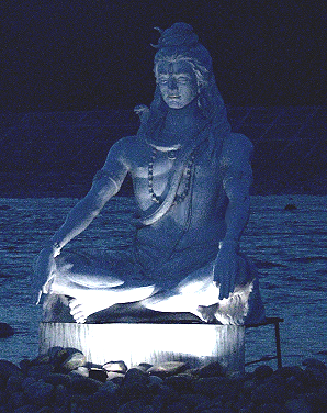 Photo restoration: statue of Shiva in Rishikesh, India. Taken by Roger roger, Teemu Kiiski, in December 2005. Original photo in